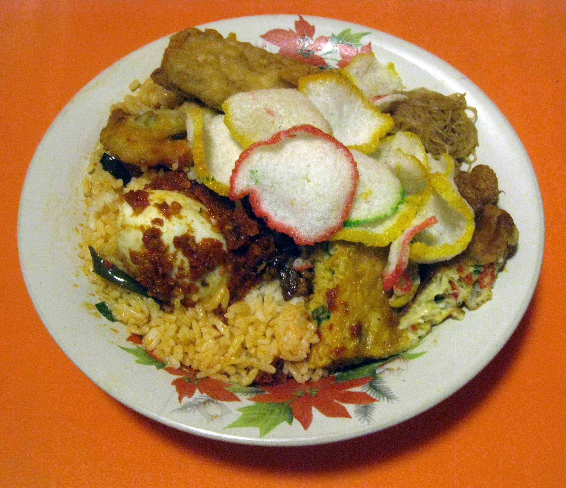 Nasi uduk Betawi (rice cooked in coconut milk), Jakarta. Topped with telur balado (hard boiled egg with sambal), telur dadar (omelette), bihun (rice vermicelli), tempe goreng (fried battered tempe), perkedel jagung (corn fritter), and krupuk bawang (onion cracker).